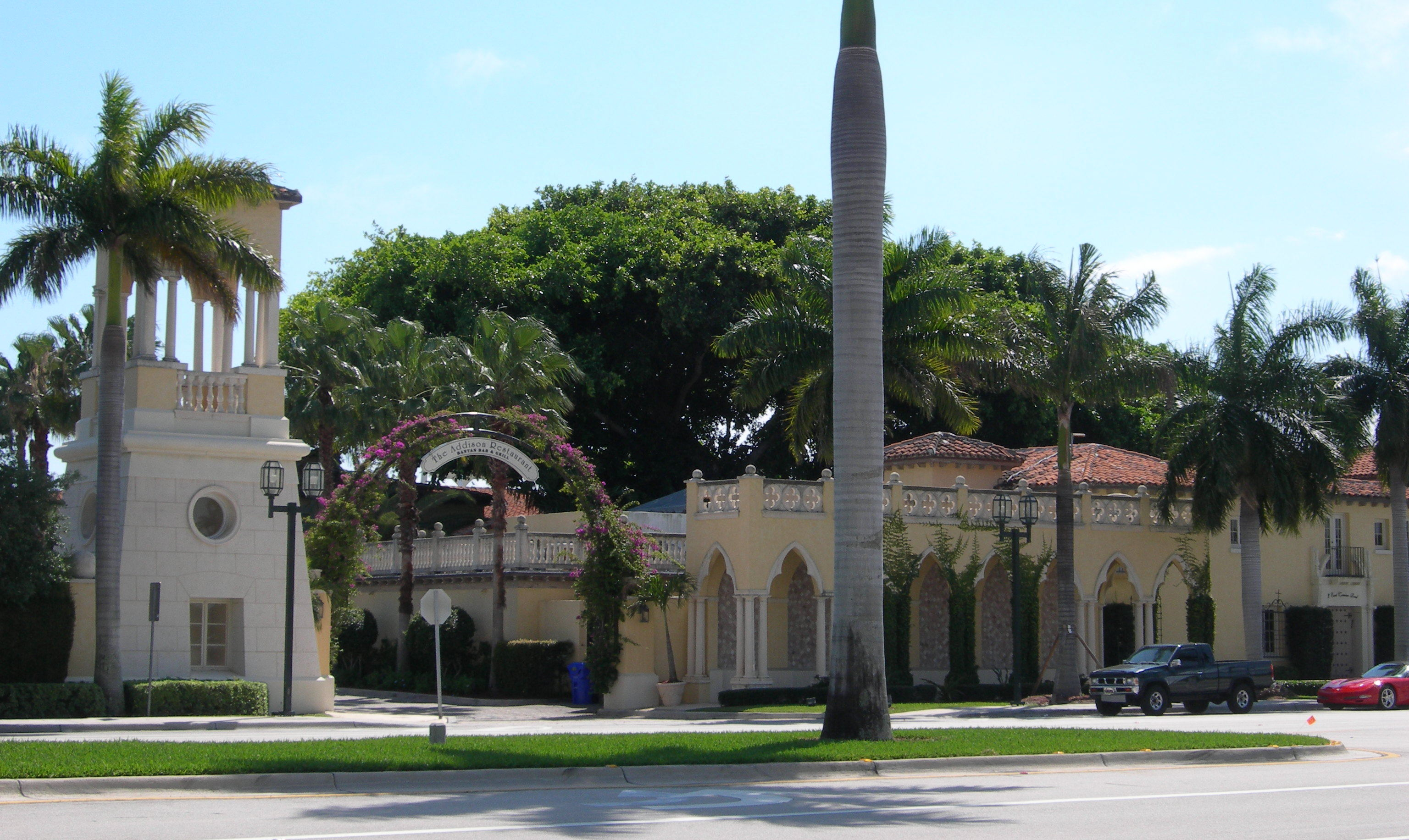 Mizner's Boca Raton administrative buildings, now site of restaurant/bar/event venue/offices, listed on the National Register of Historic Places.